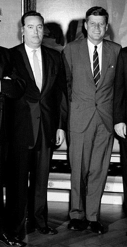 Robert E. Cook, congressman from Ohio and John F. Kennedy in Blue Room at White House May 25, 1961.